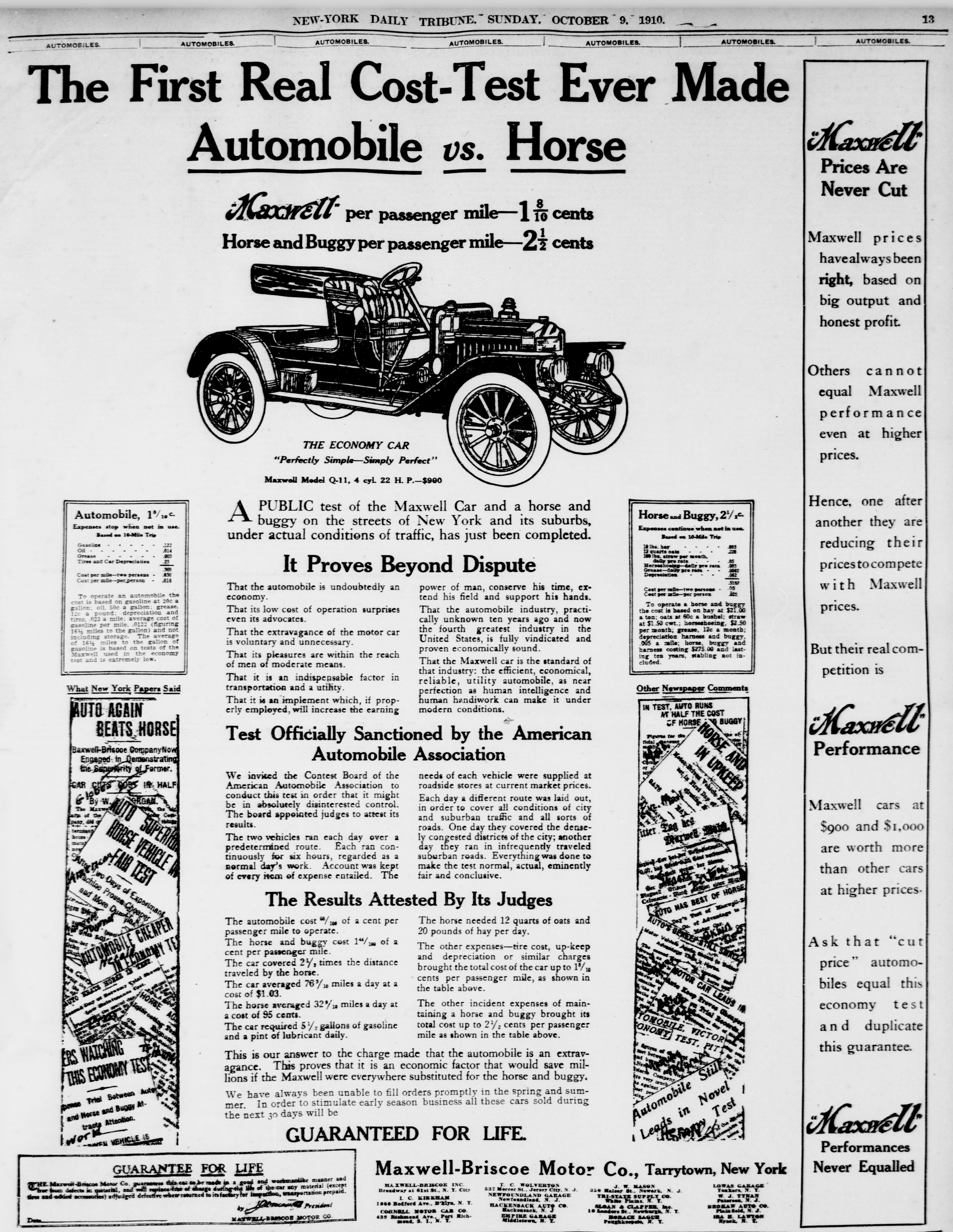 Maxwell-Briscoe Motor newspaper advertisement